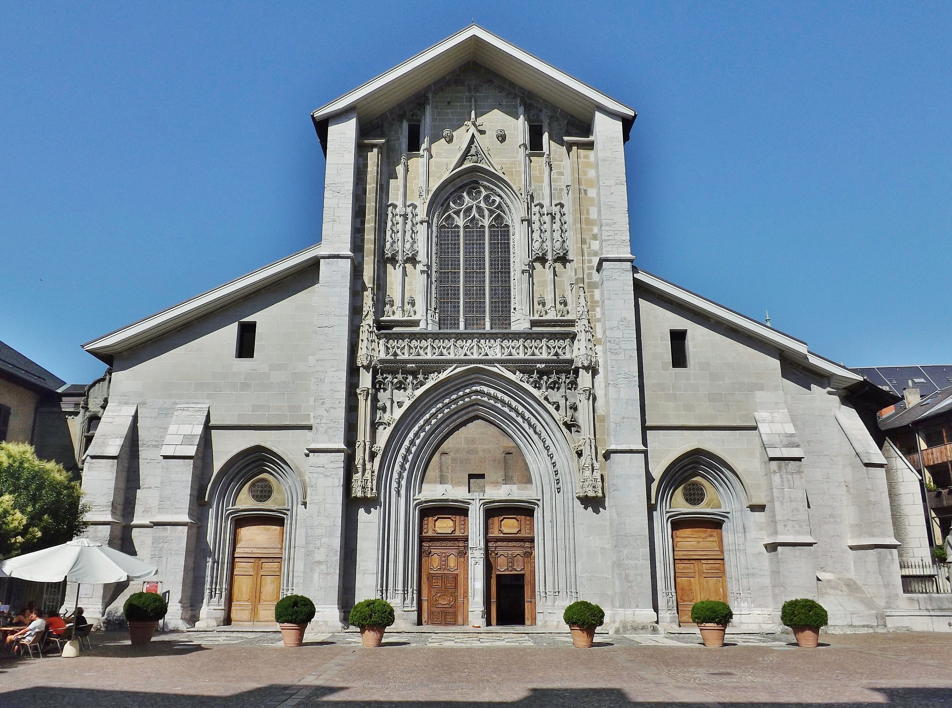 Sight of the Saint-François de Sales cathedral facade, in Chambéry, Savoie, France.